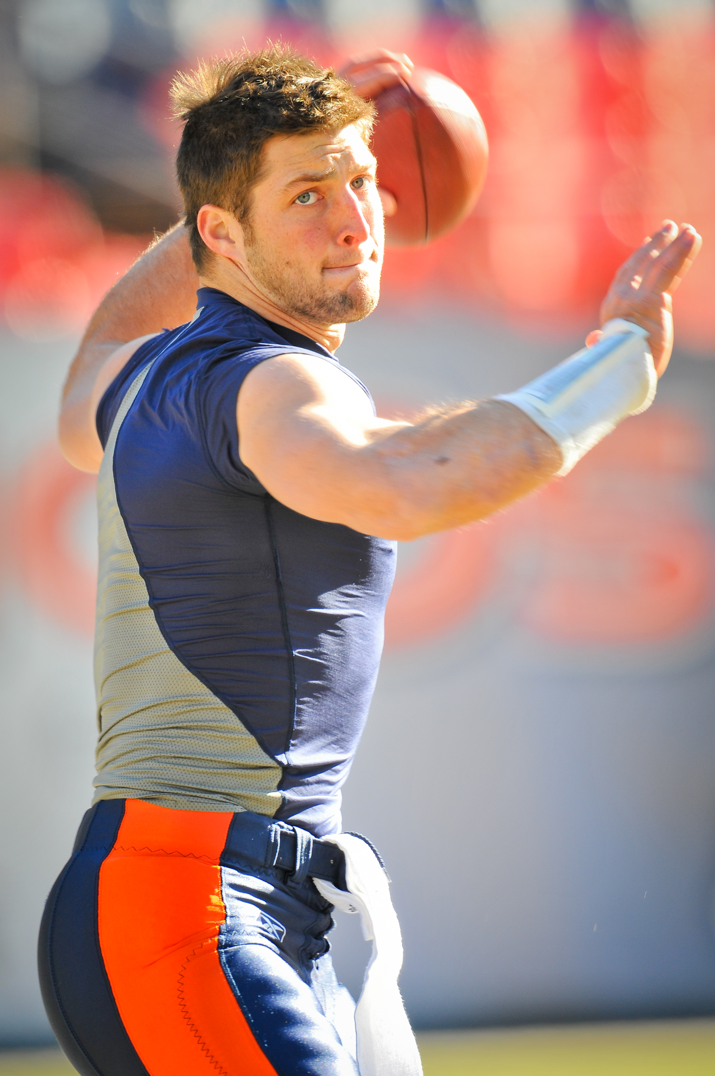 Photo of Tim Tebow “Tebowing” taken on 1-1-2012 at Sports Authority Field at Mile High (Denver Colorado). Denver Broncos vs Kansas City Chiefs Photo was taken prior to the start of the game.